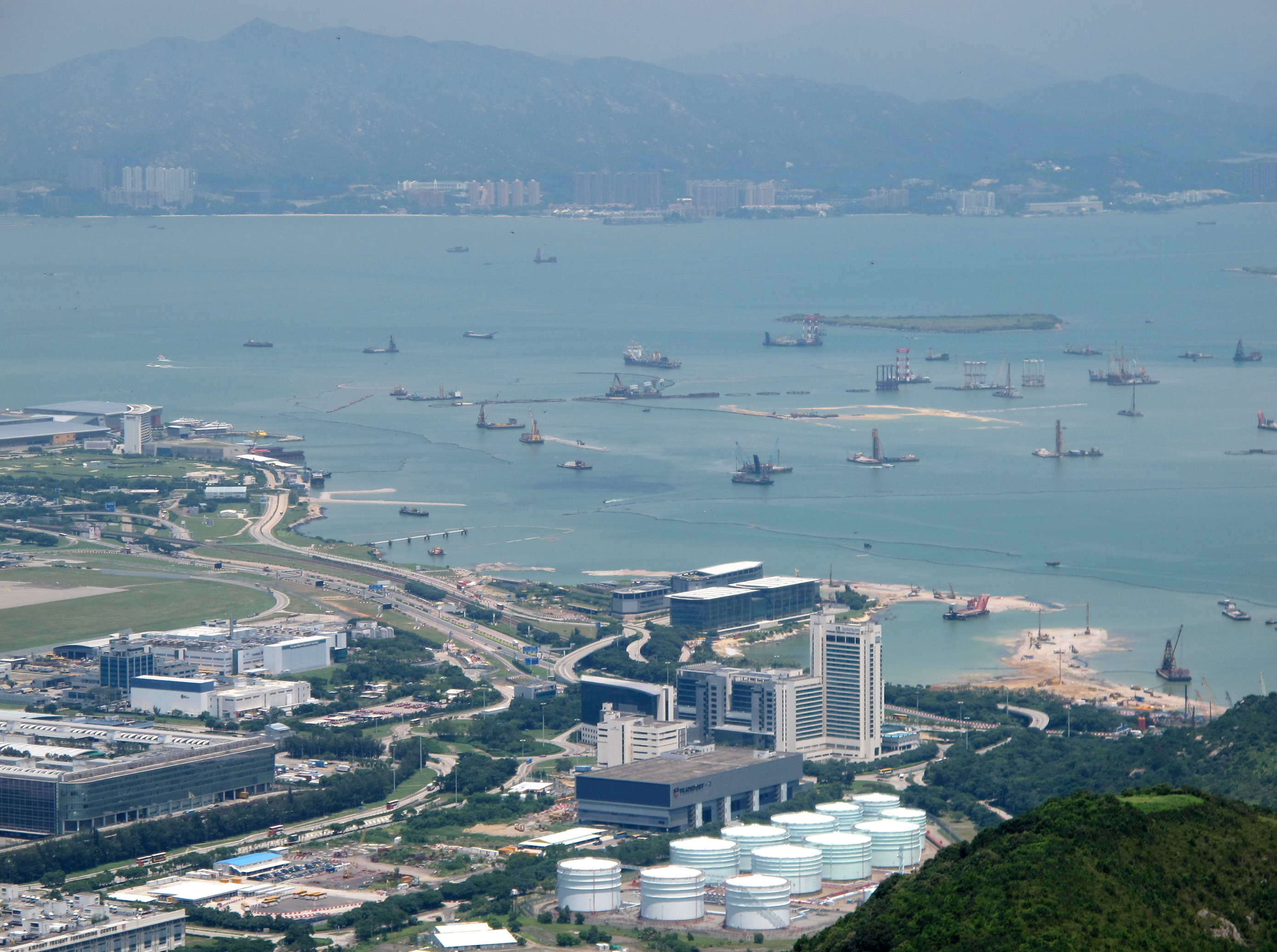 The artifical island for the Hong Kong Boundary Crossing Facilities, Hong Kong–Zhuhai(China)–Macau Bridge under construction 興建中的港珠澳大橋香港出入境管制站人工島，左面可看到不浚挖式填海法所採用的鋼桶。